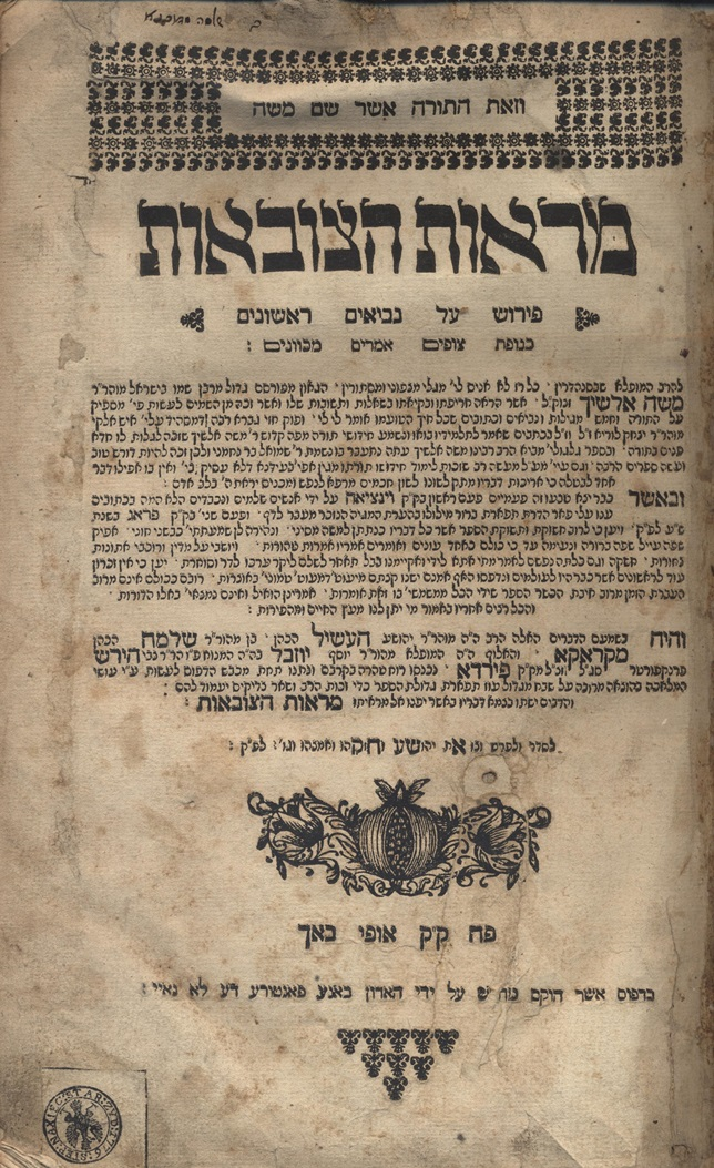 Alshekh, Moses, Active 16th Century. Mar'ot ha-Tsov'ot: Perush 'al Nevi'im Rishonim. Ofebakh; [Bi-Defus Bone Fanture De La Noi], [1719]. Marot Ha-Tsovot (Collected Vision), commentary on the Former Prophets.